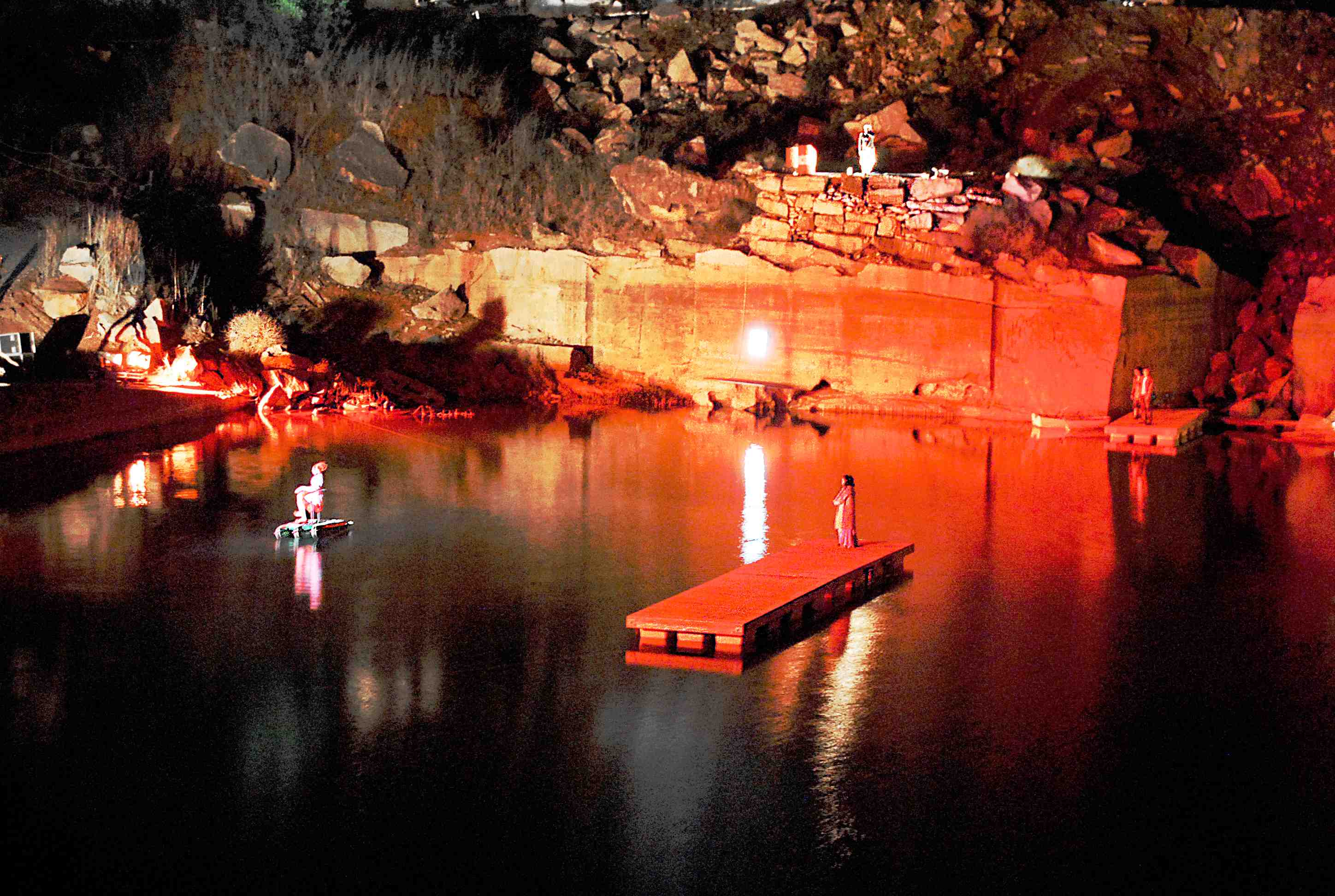 Divina Comedia Myllyteatteri 2012 in Portugal